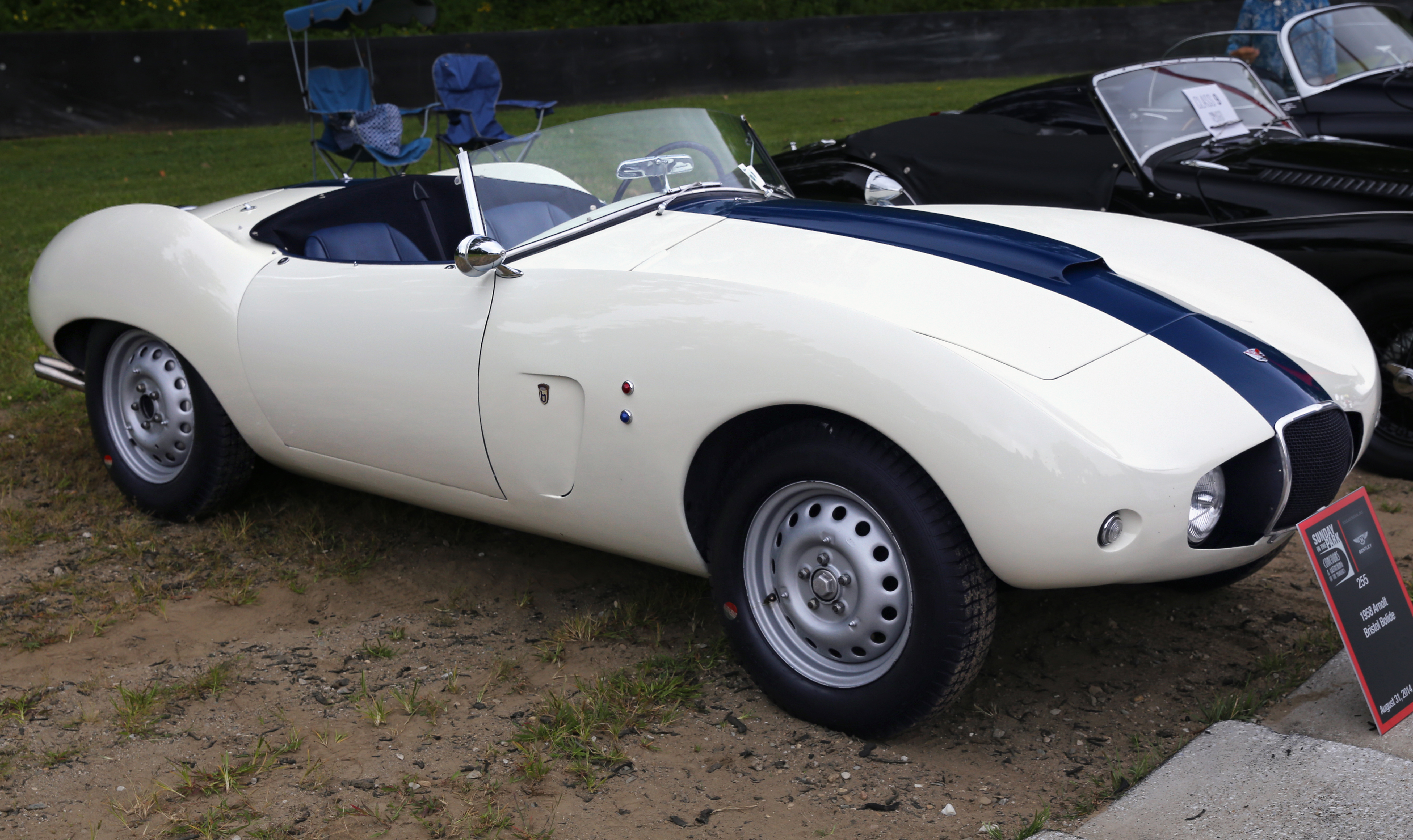 A 1958 Arnolt-Bristol "Bolide" in the US racing colors, at the 2014 Lime Rock Concours d'Élegance.